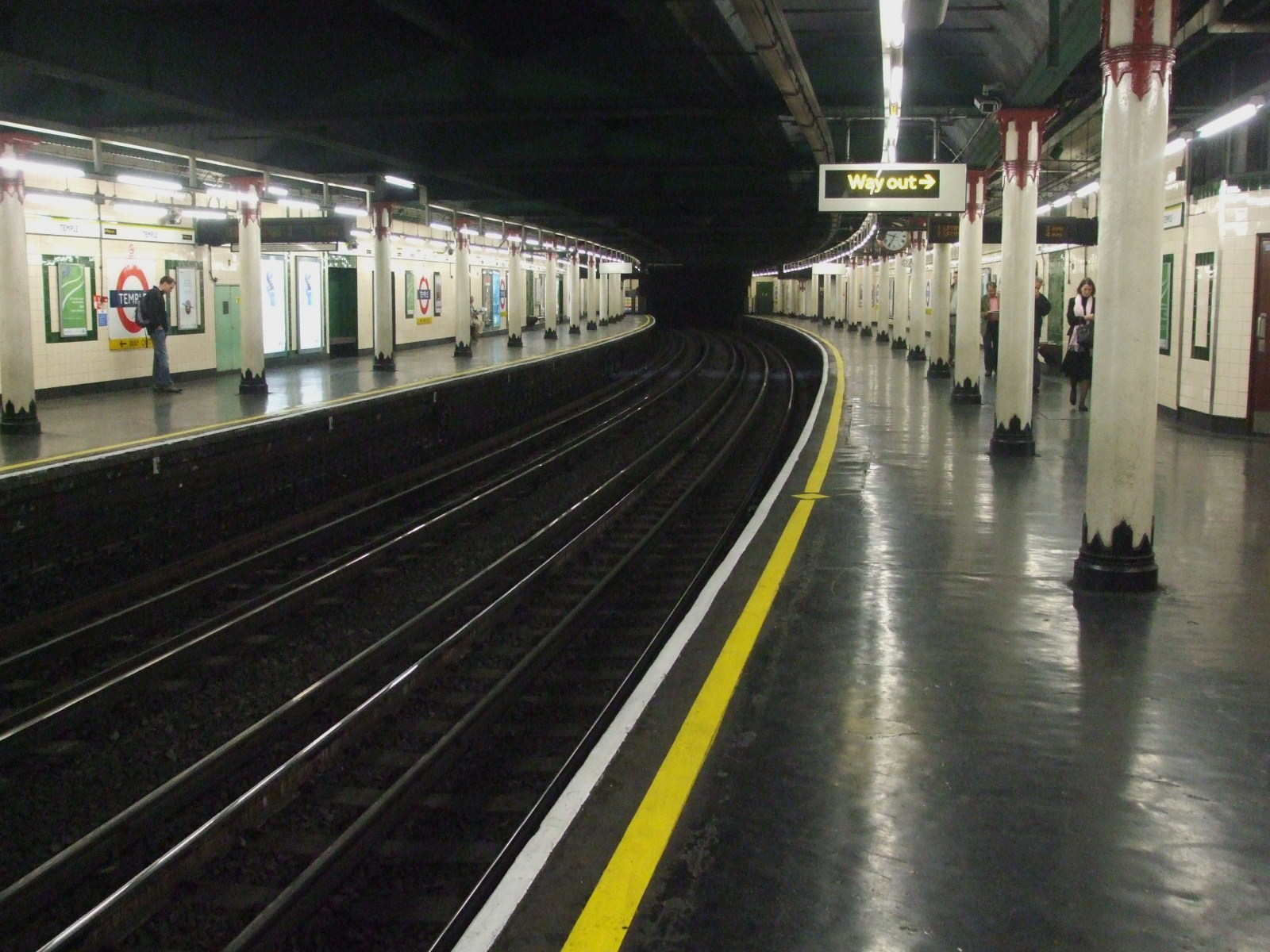 Temple tube station looking clockwise/westwards